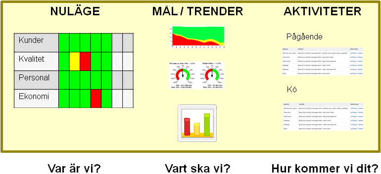 This image shows a typical execution of a daily control board